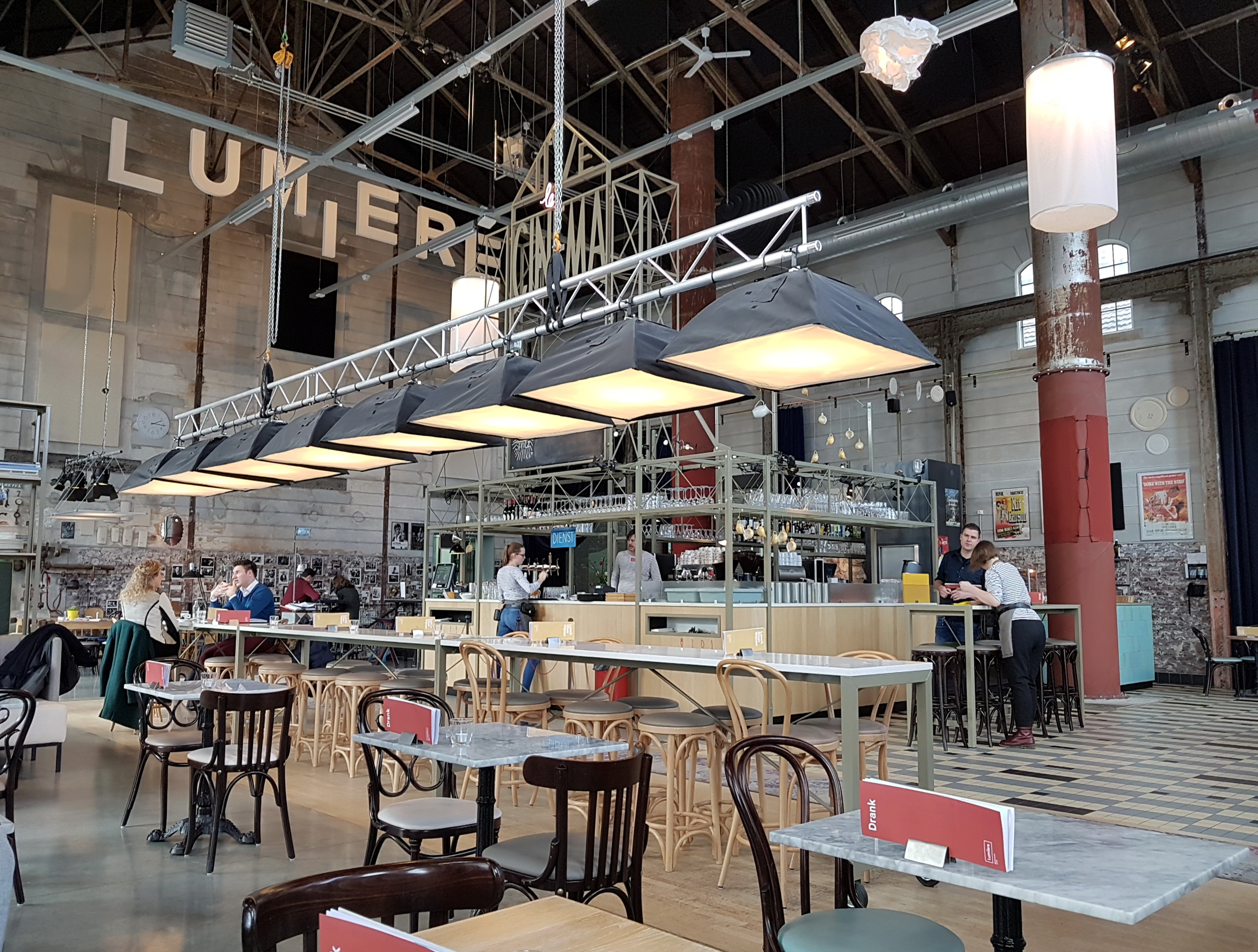 Interior view of the café-restaurant of Lumière Cinema in Maastricht, Netherlands.